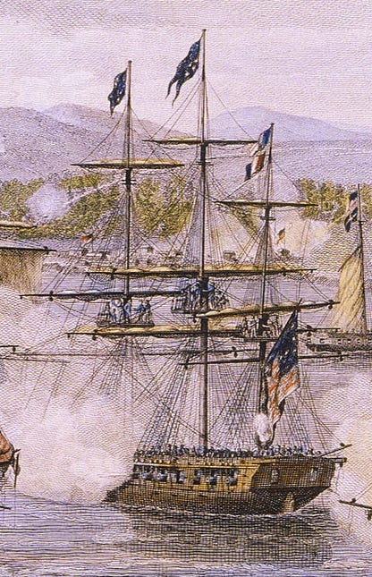 Macdonough’s victory on Lake Champlain and defeat of the British Army at Plattsburg by Genl. Macomb, Sept. 11 1814. Engraverː Benjamin Tanner, after painting by Hugh Reinagle. Lake Champlain Maritime Museum Collection